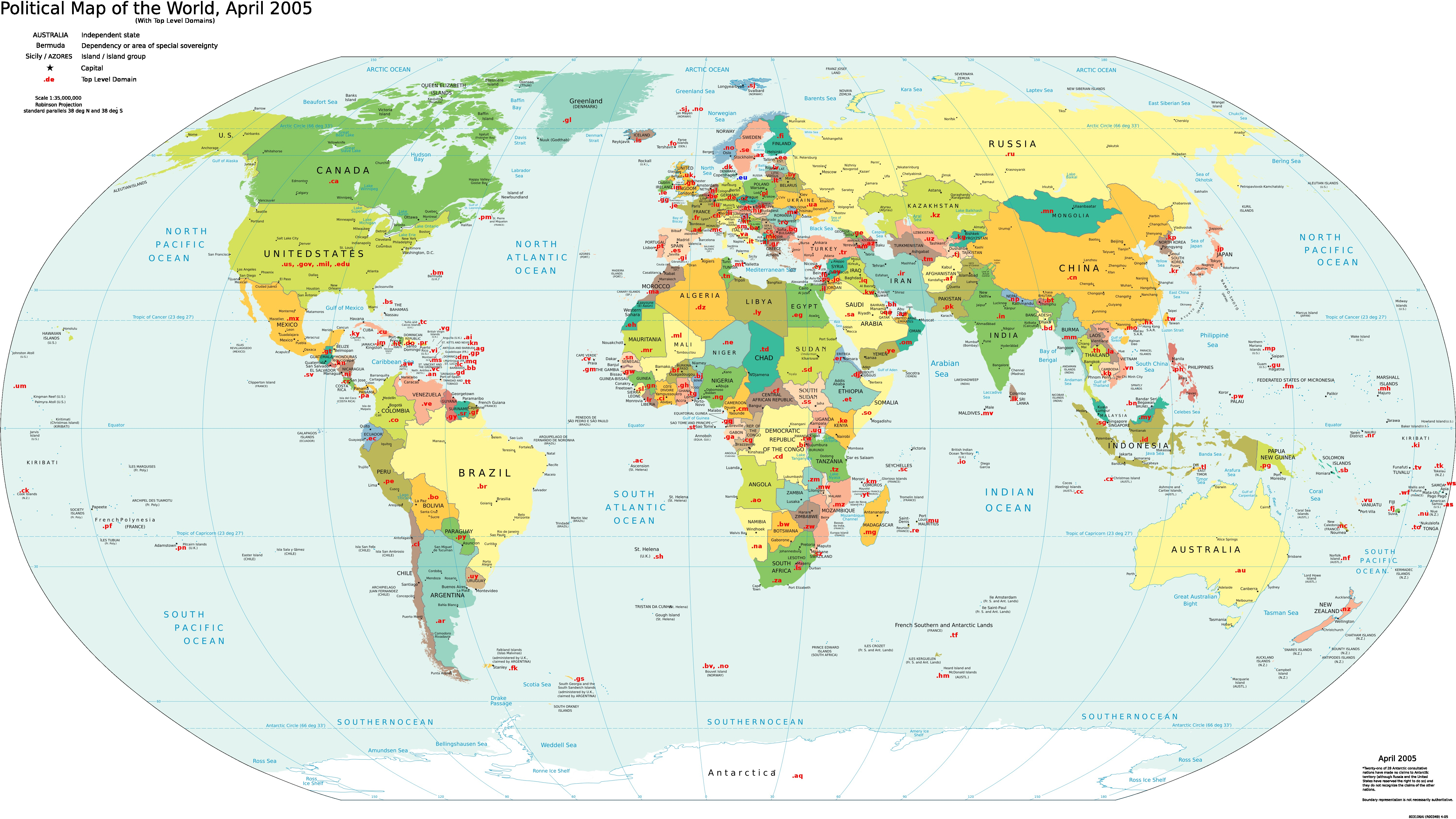 World Map Politic 2005 with ccTLDs